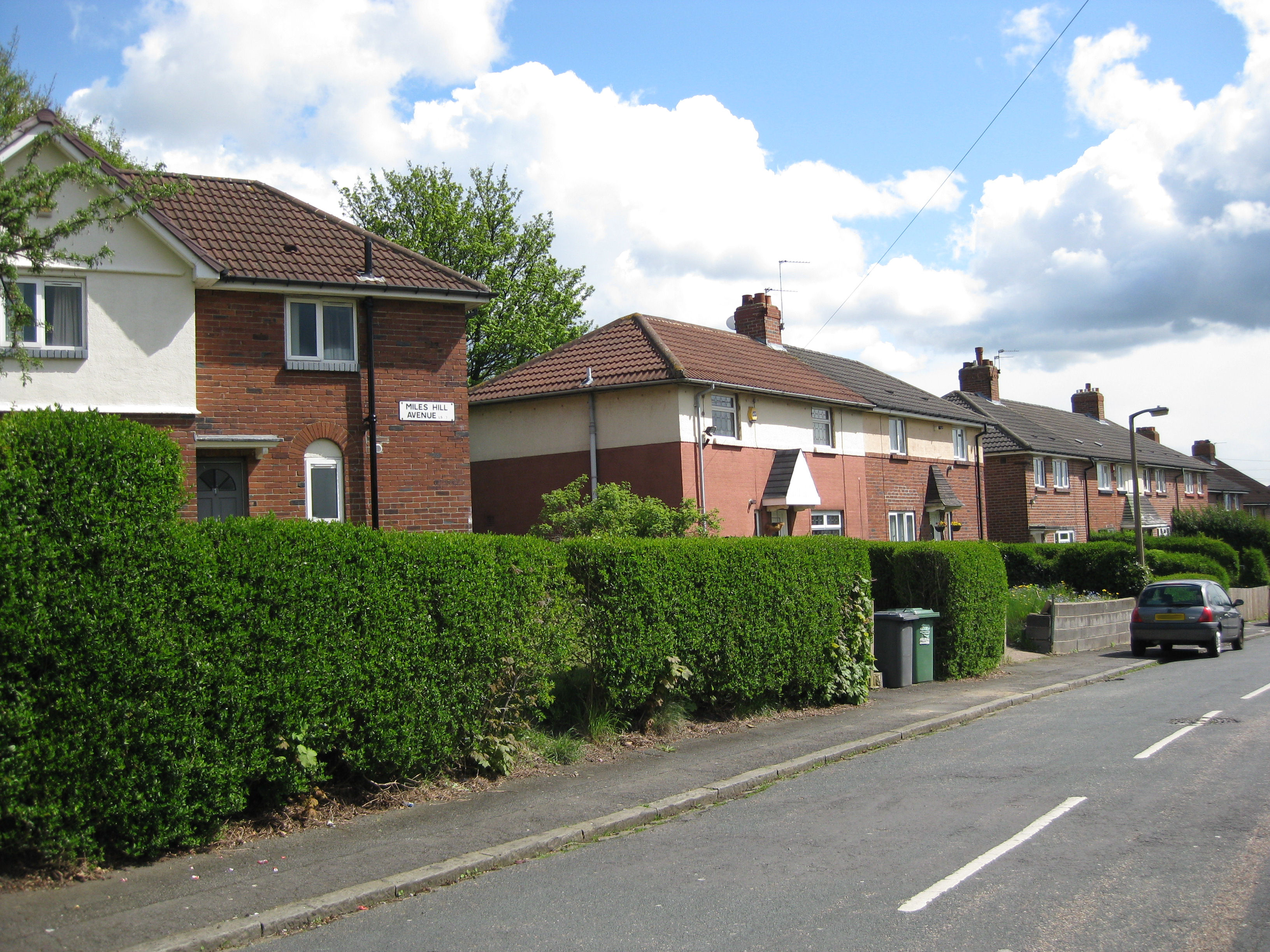 Miles Hill Avenue, Leeds LS17.